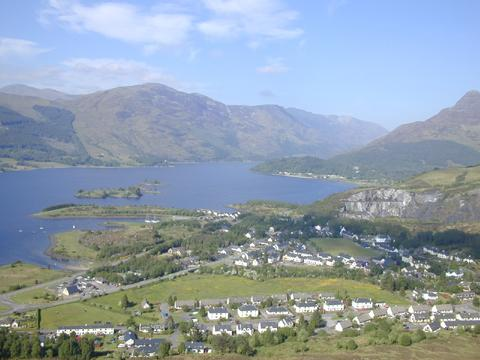 Ballachulish, Lochaber, Highland, Scotland seen from the lower slopes of Beinn Bhàn. Gàidhlig: Baile a' Chaolais